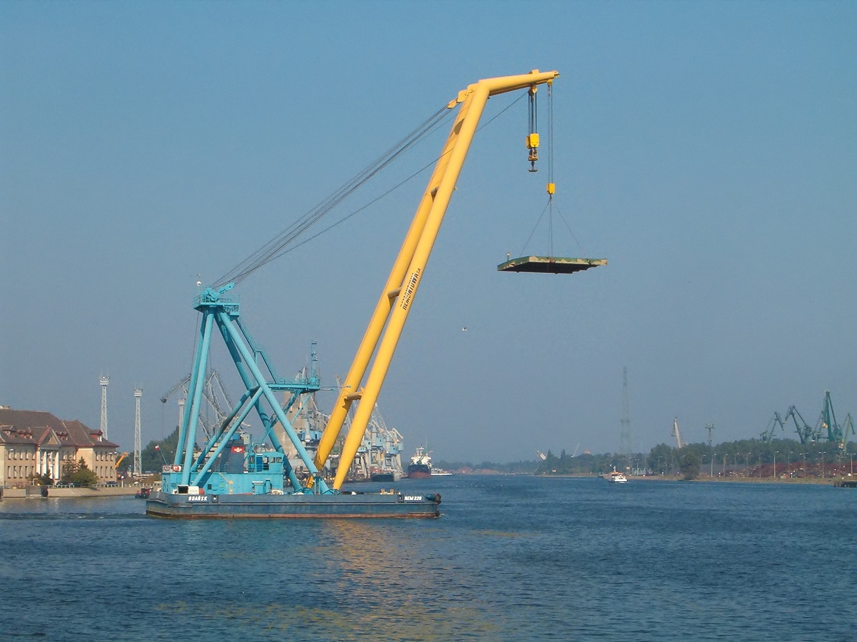 Floating crane in Gdansk, Poland.